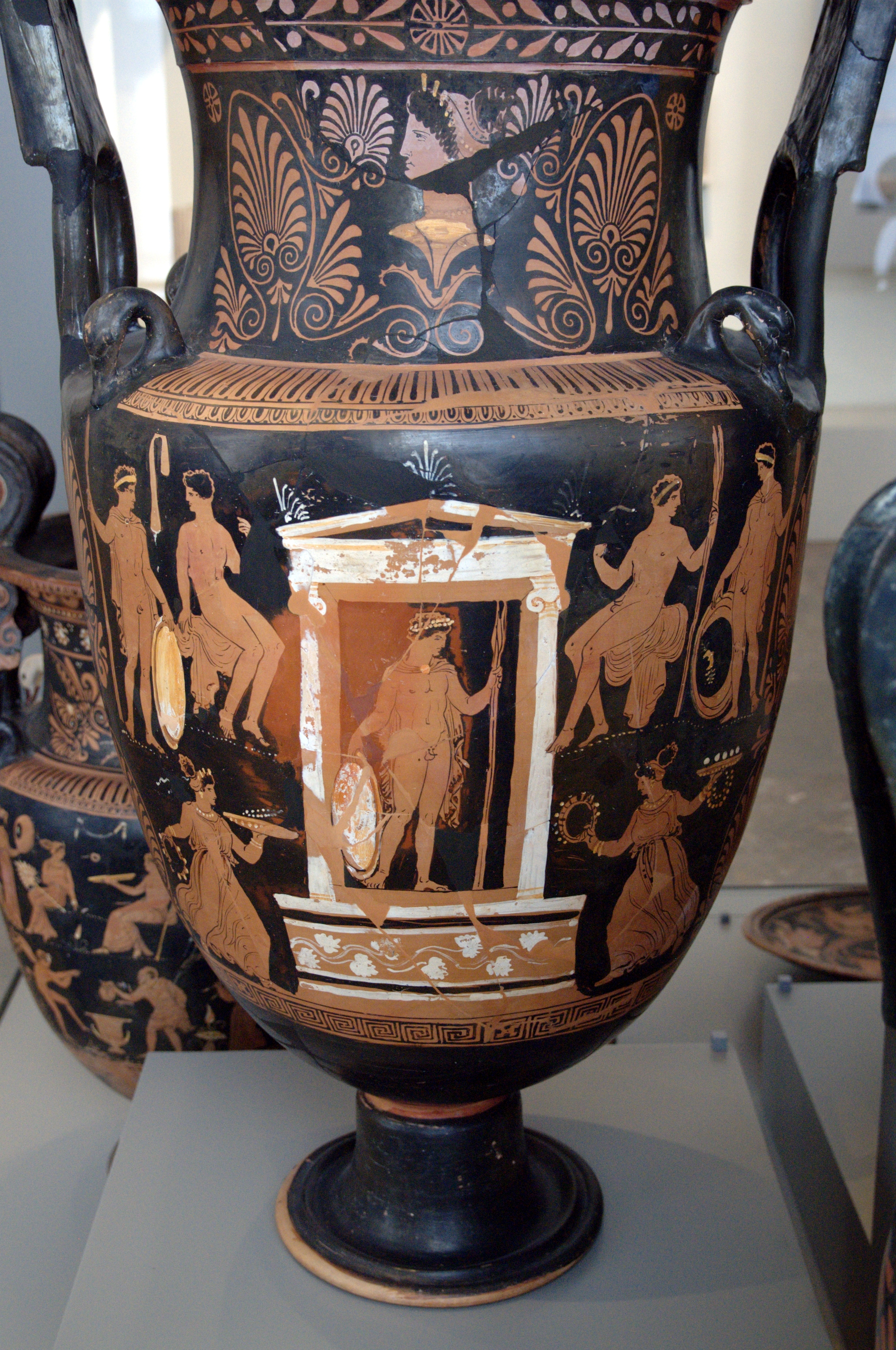 Naiskos. Side B of the “Priamides krater”, Apulian red-figure volute-krater, ca. 340 BC.